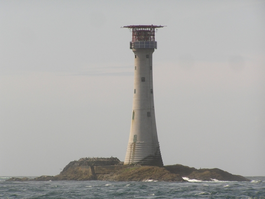 Smalls Lighthouse Smalls Lighthouse, taken just after noon on 6 August 2009 while on a Sea Trust survey trip from Neyland, Pembs. Wonderful day - sitings of dolphins and even whales, as well as close-up views of Smalls and Grassholme.